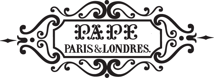 Facsimile maker's label from piano-console nameboard, Clark Panaccione, Mi Re Ut 2005